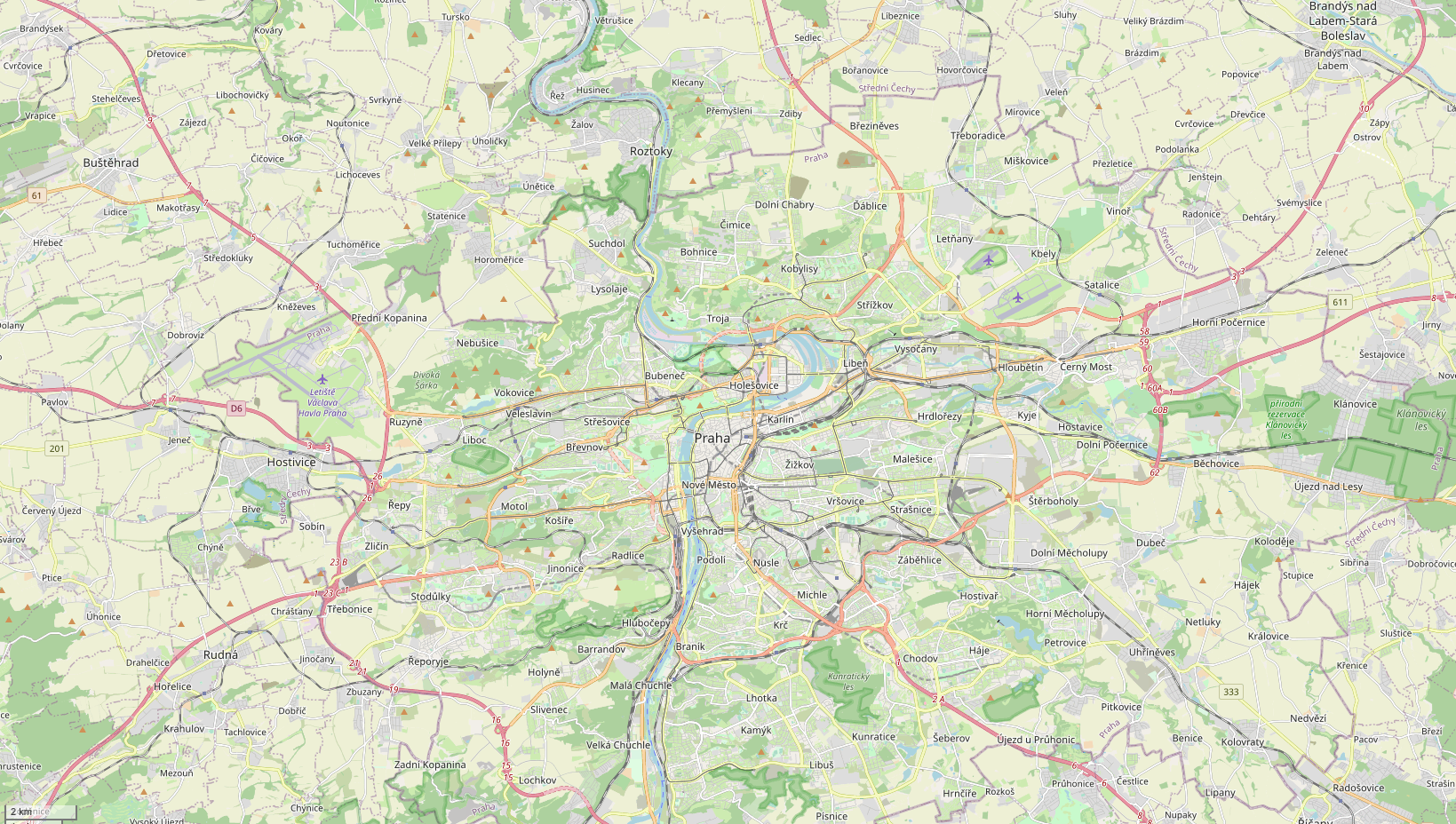 OpenStreetMap image of map of Prague, 50°05′52″N 14°26′03″E / 50.0978°N 14.4343°E, from